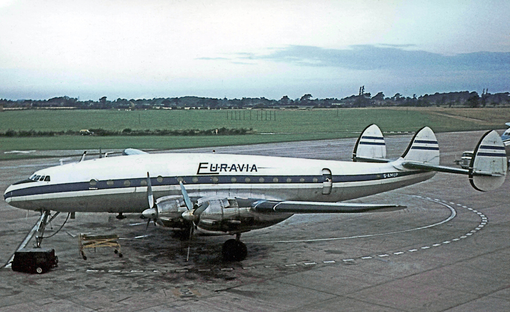 Lockheed 049 Constellation G-AMUP of Euravia at Manchester Airport in 1964